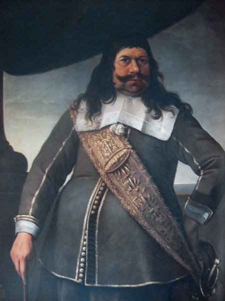 This image is available from the Netherlands Institute for Art Historyunder digital ID 173534. This tag does not indicate the copyright status of the attached work. A normal copyright tag is still required. See Commons:Licensing.